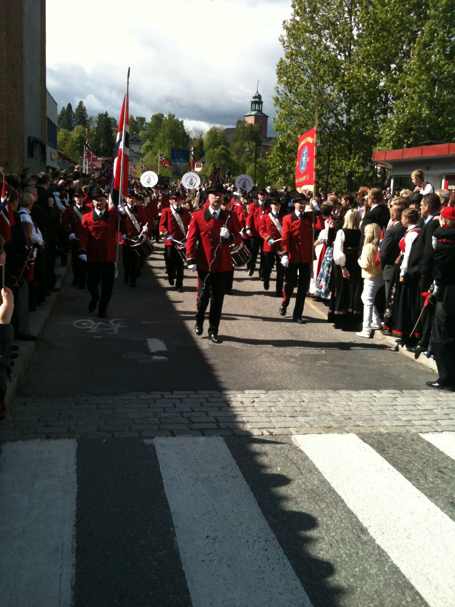 KM-Musikken - May, 17th 2011 in Kongsberg. Photo: Thomas Bjørndahl